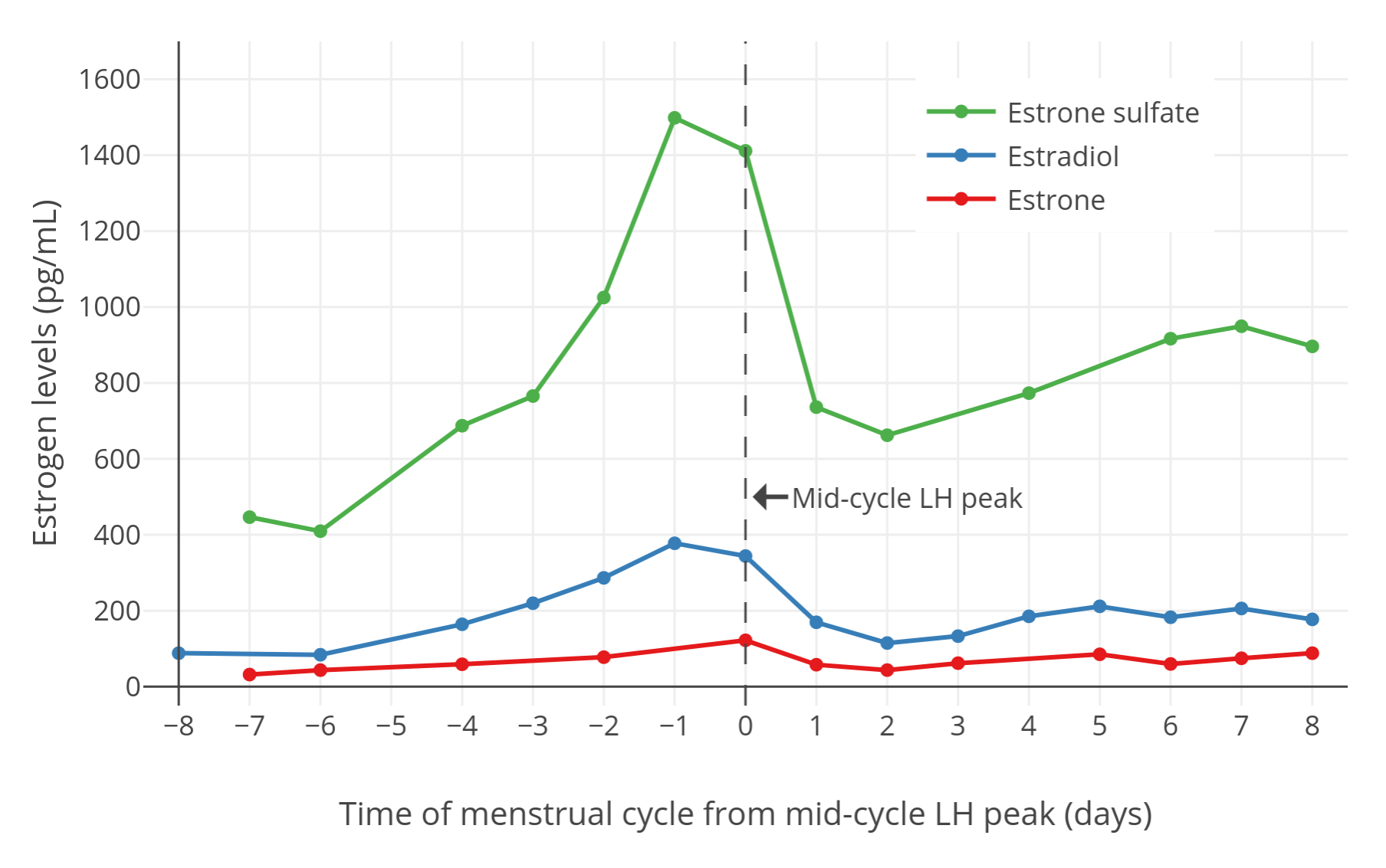 Levels of estradiol, estrone, and estrone sulfate (pg/mL) during the normal human menstrual cycle. Sources of the values: (1990). "Metabolism and biologic response of estrogen sulfates in hormone-dependent and hormone-independent mammary cancer cell lines. Effect of antiestrogens". Ann. N. Y. Acad. Sci. 595: 106–16. PMID 2375600. (November 1977). "Studies on the pattern of circulating steroids in the normal menstrual cycle. 6. Levels of oestrone sulphate and oestradiol sulphate". Acta Endocrinol. 86 (3): 621–33. PMID 579025.